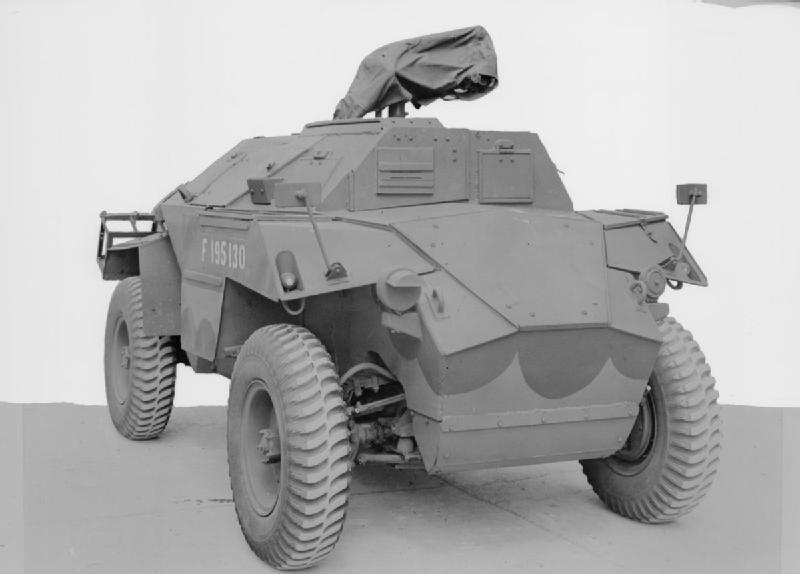 Tanks and Afvs of the British Army 1939-45 Humber scout car